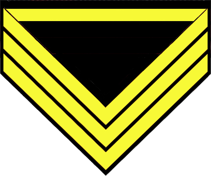 United State 1800's Company Quartermaster Sergeant rank insignia in Cavalry Yellow